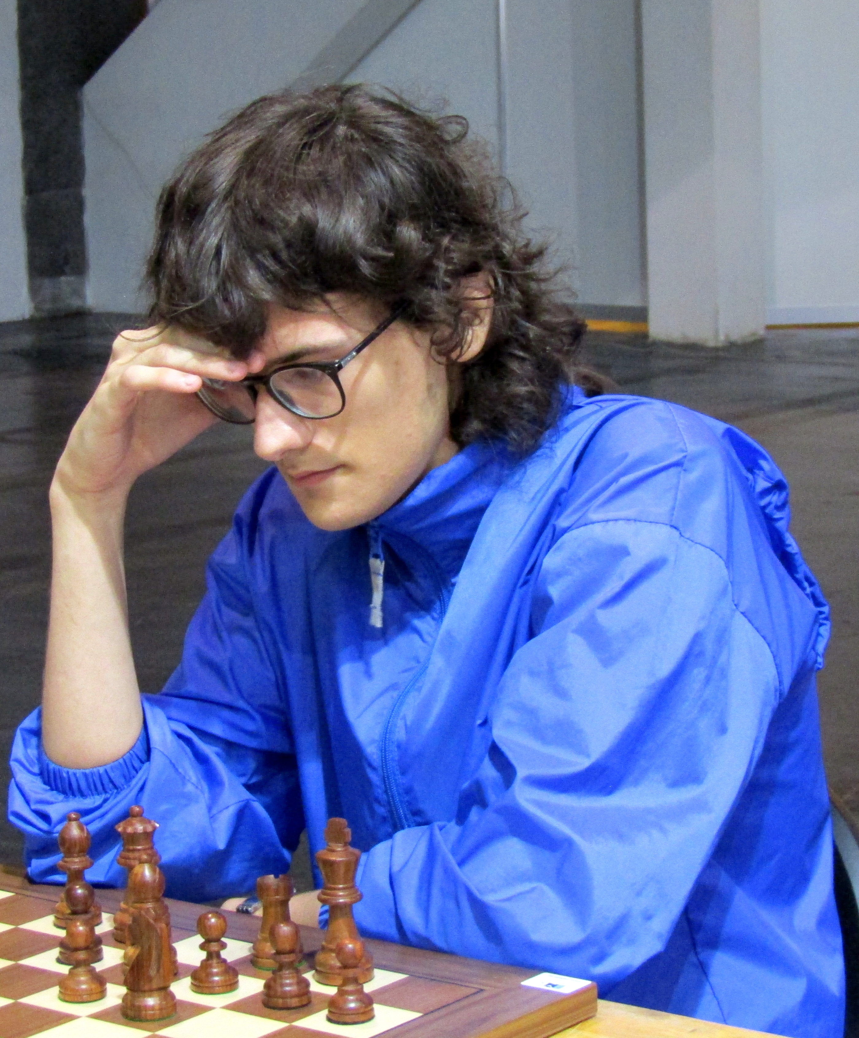 Nikita Petrov, chess grandmaster from Russia